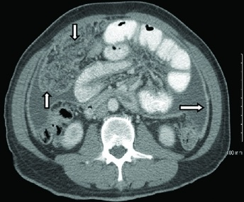 CT scan of peritoneal tuberculosis of a 67-year-old male who presented with fatigue, abdominal pain. There is moderate amount of abdominal and pelvic ascites with diffuse thickening of peritoneal surfaces. Diffuse thickening is also seen throughout the omentum.